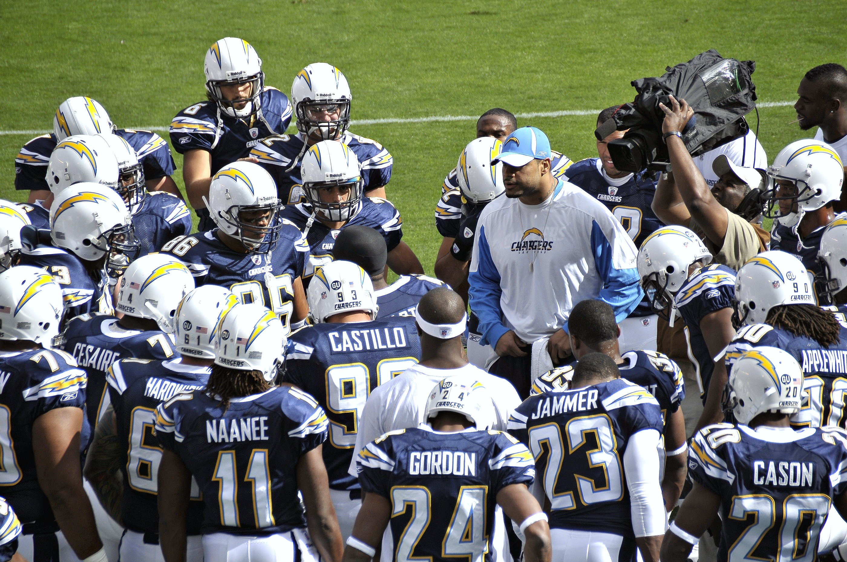 Shawne Merriman of the San Diego Chargers participates in the team huddle.